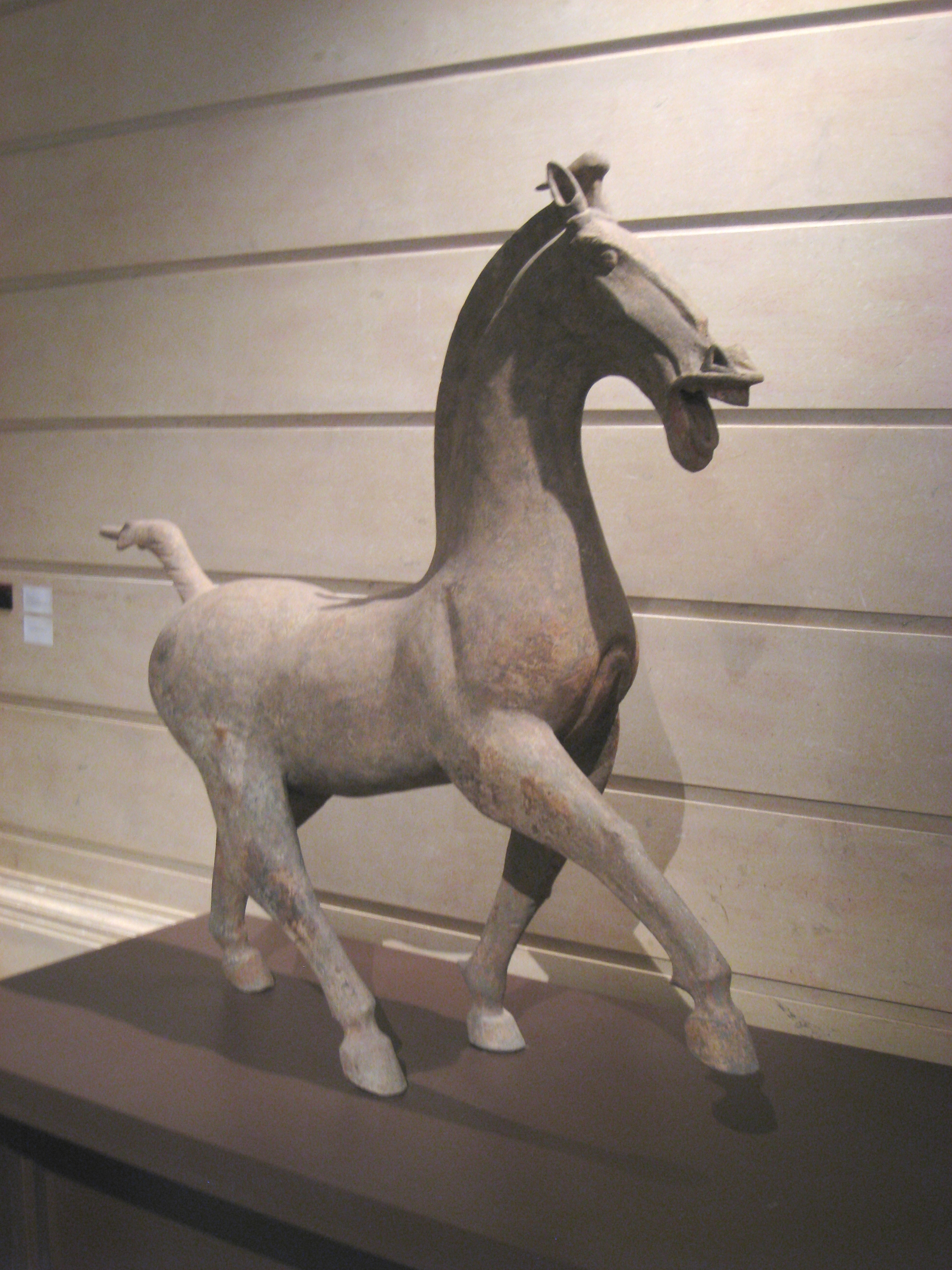 A terracotta statue of a horse from the Chinese Han Dynasty (202 BCE – 220 CE). Musée Cernuschi, Paris, France. The original work is old enough so that copyright (if any) has long since expired. The museum imposed no restrictions on photography (except prohibiting flash) in writing and when I explicitly asked; thus the original image appears free of copyright restrictions.